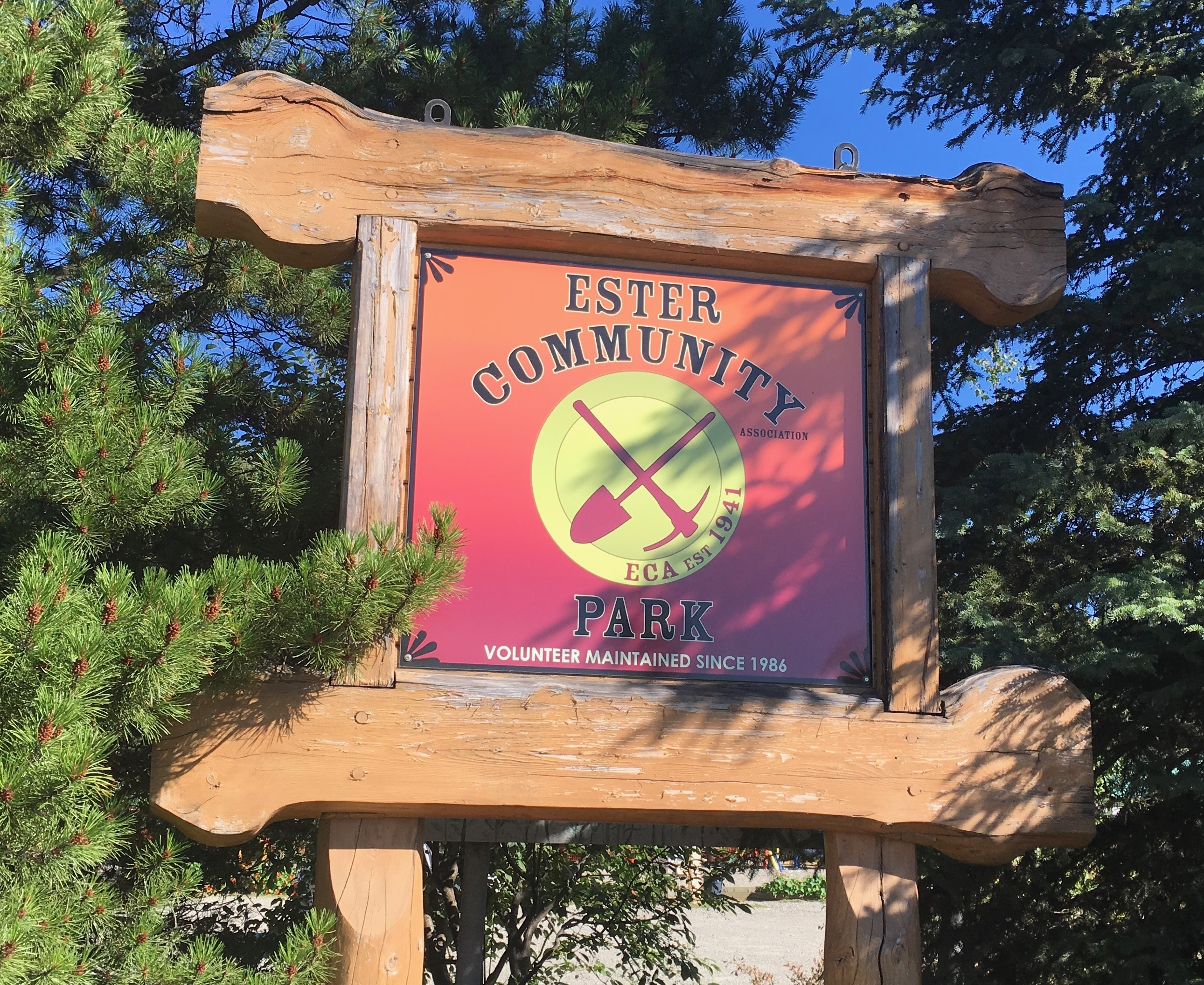 The Ester Community Park has a playground combination ice rink and basketball court, picnic pavilion, covered stage, and the best grass in Interior Alaska. It is maintained by volunteers.